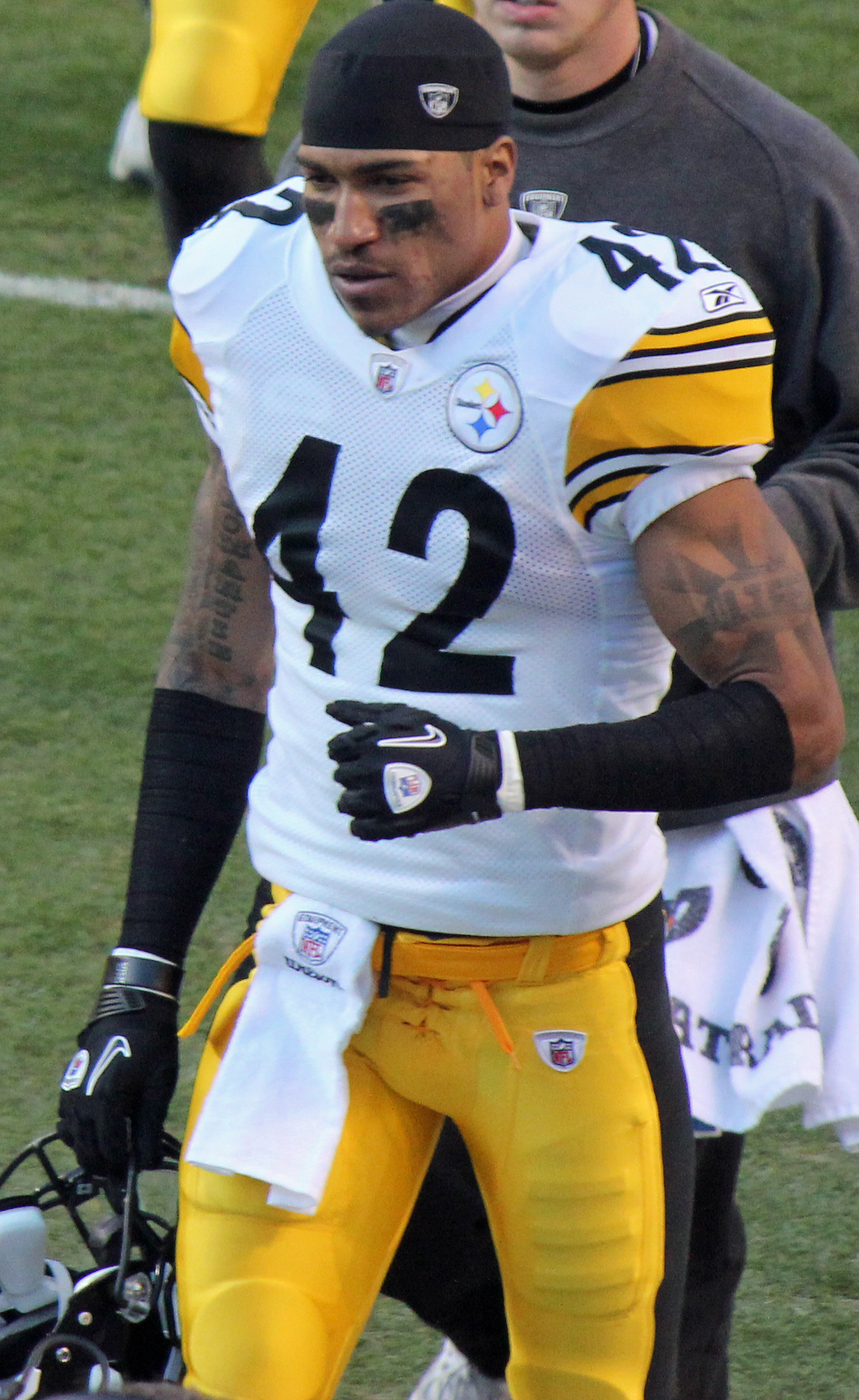 Da'Mon Cromartie-Smith, a player on the National Football League.